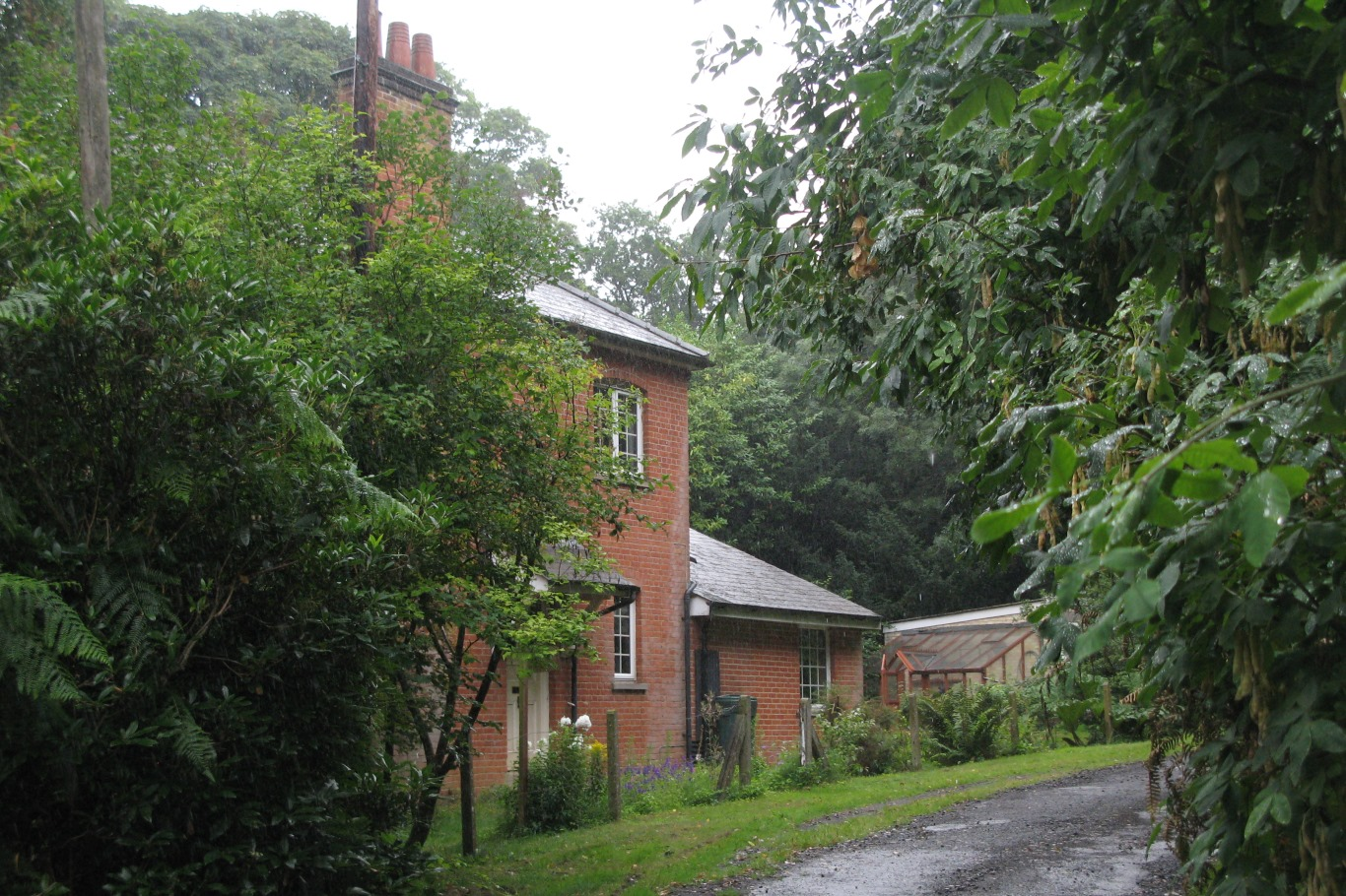 Orwell station was mainly built for the owner of the Felixstowe Dock and Railway Company who lived at Orwell Park, although it was also useful for people living in the village of Nacton. It closed in 1959 but has survived as a private house. This glimpse is from the entrance to the old station approach in 2017.